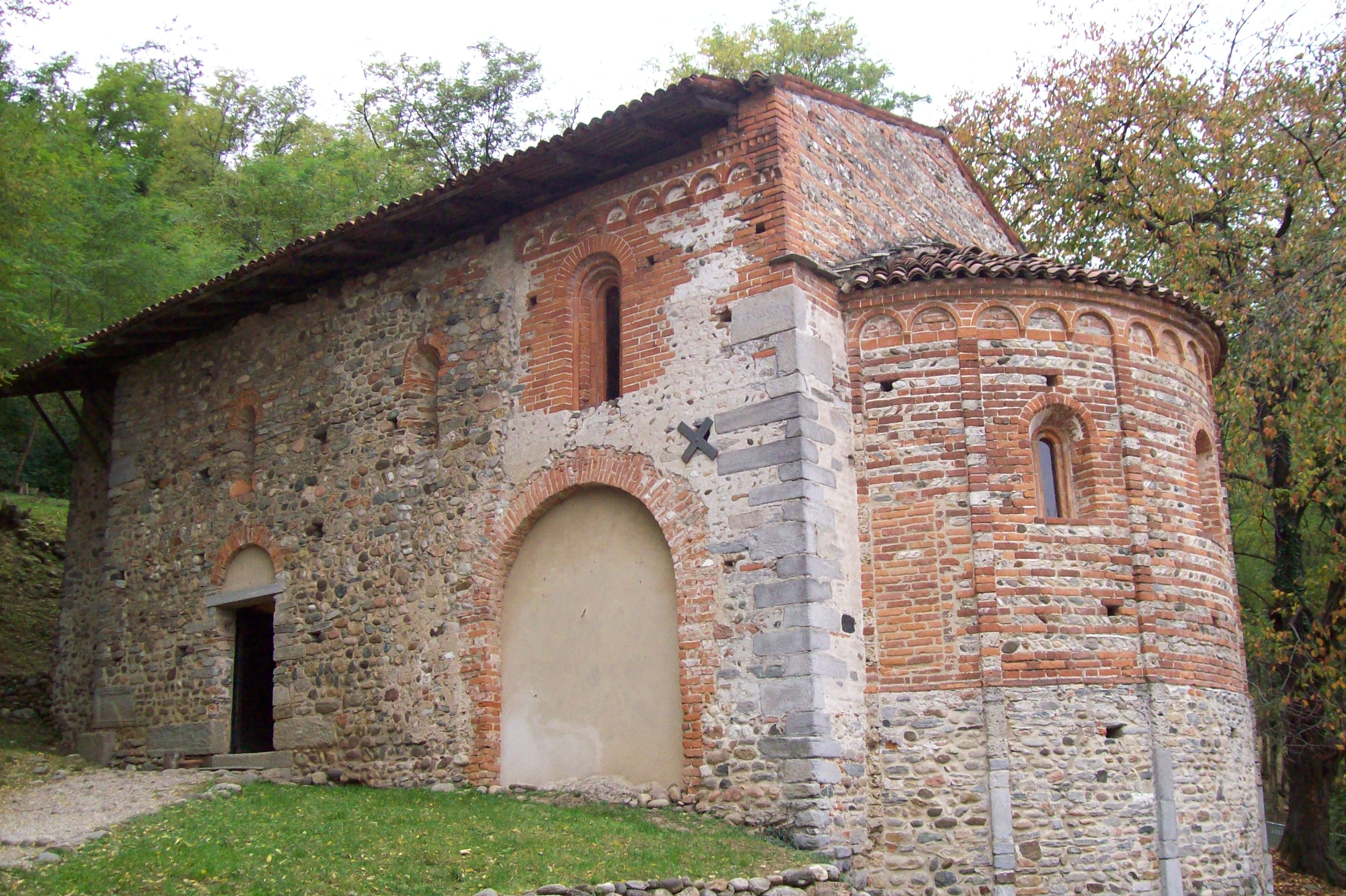 Church of Santa Maria di Torba, Gornate olona (Va) (Italy)